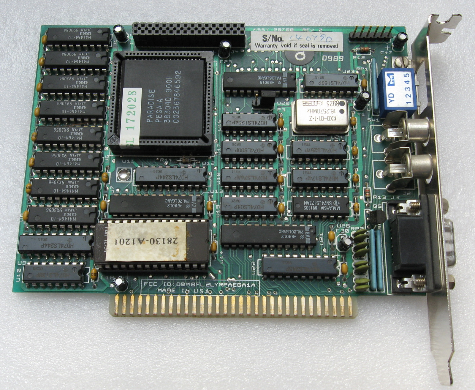 Enhanced Graphics Adapter card Paradise 38304D 256kb ISA-8bit